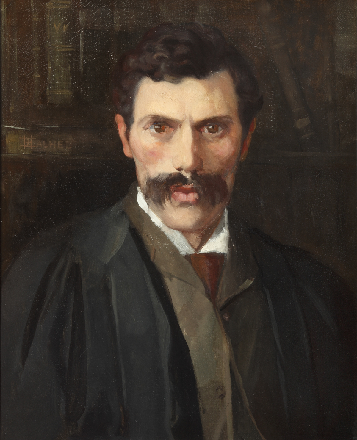 David Samuel Margoliouth (1858-1940), Laudian Professor of Arabic (1889-1937); Oriental Institute